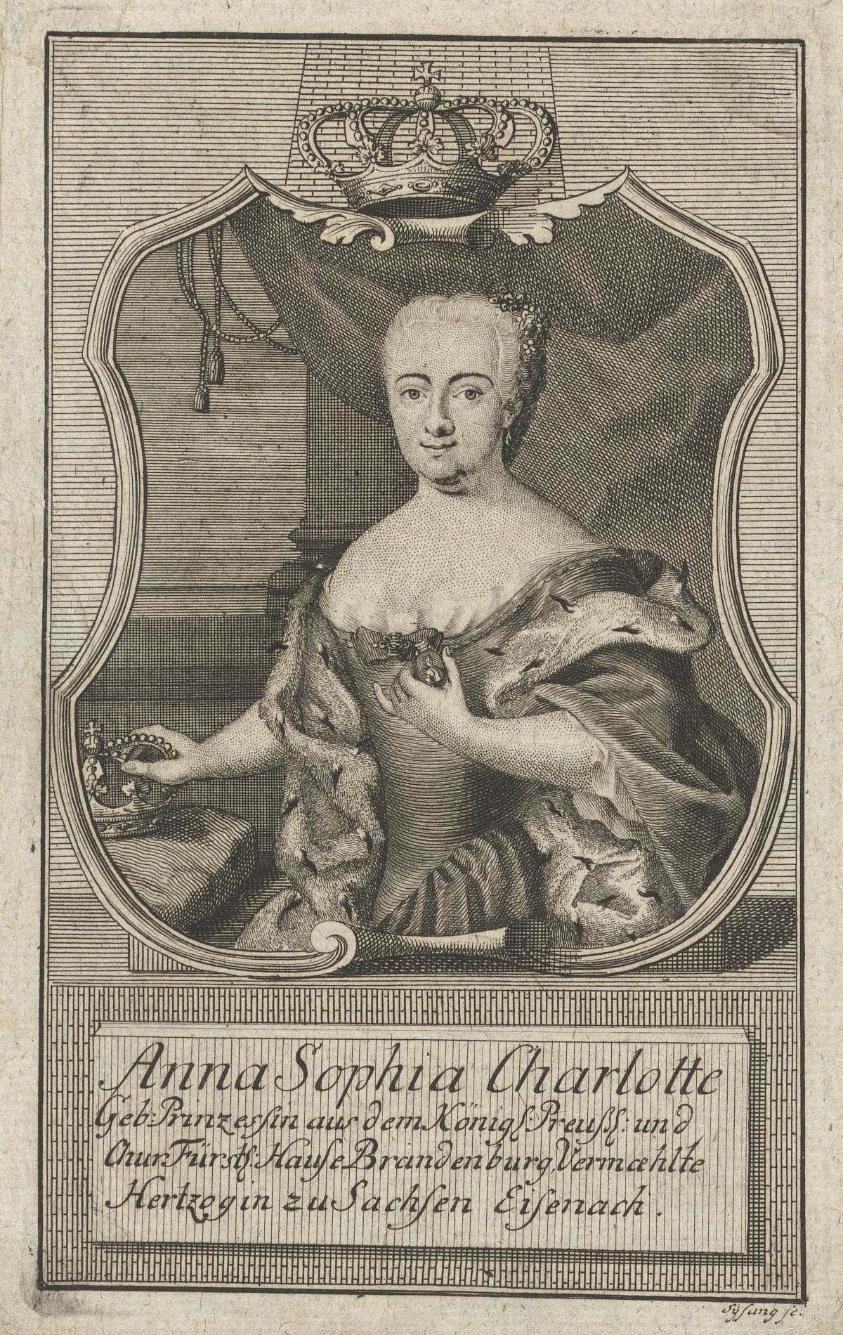 Sophia Charlotte of Brandenburg-Bayreuth, duchess of Saxe-Eisenach and Saxe-Weimar